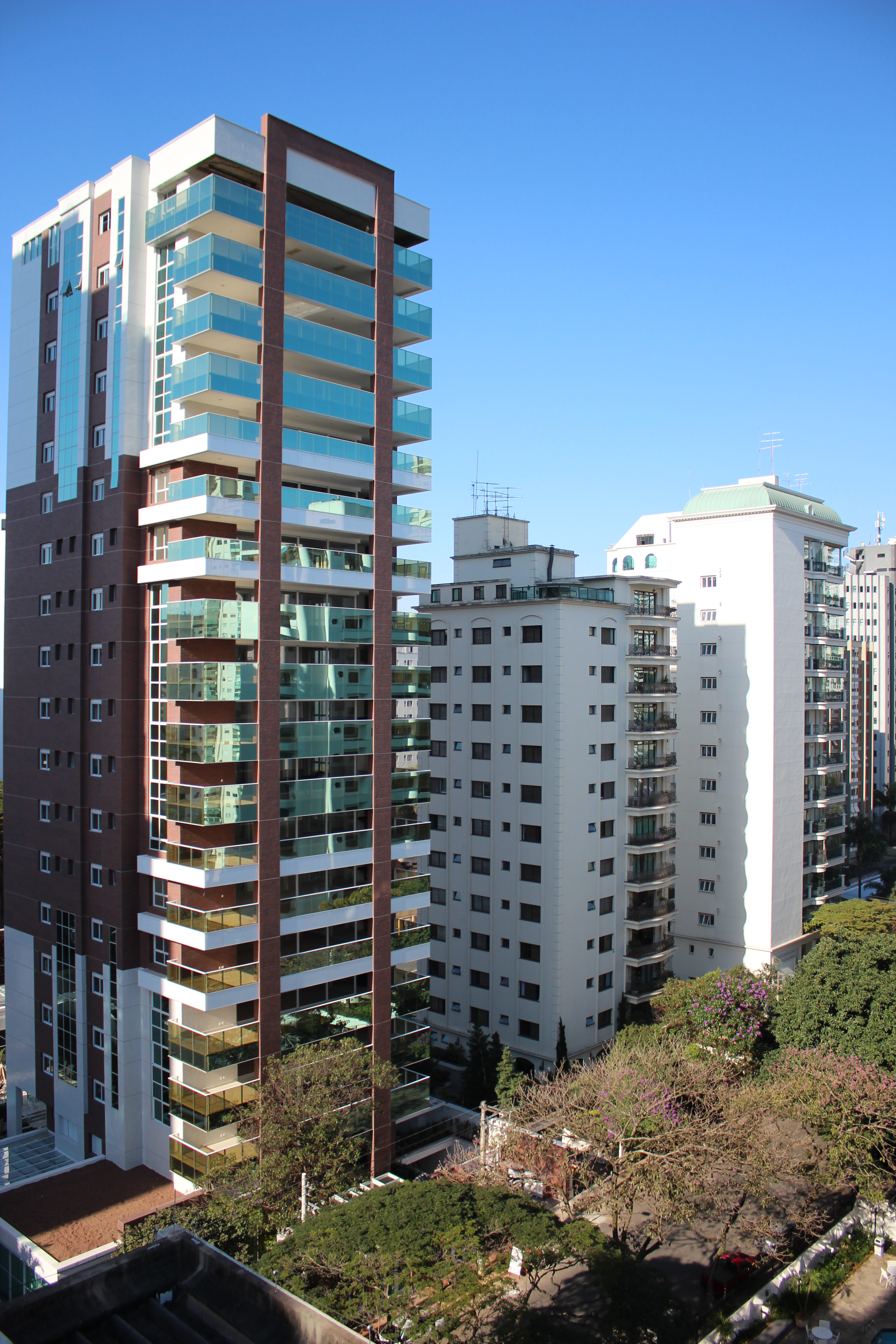 bairro campo belo